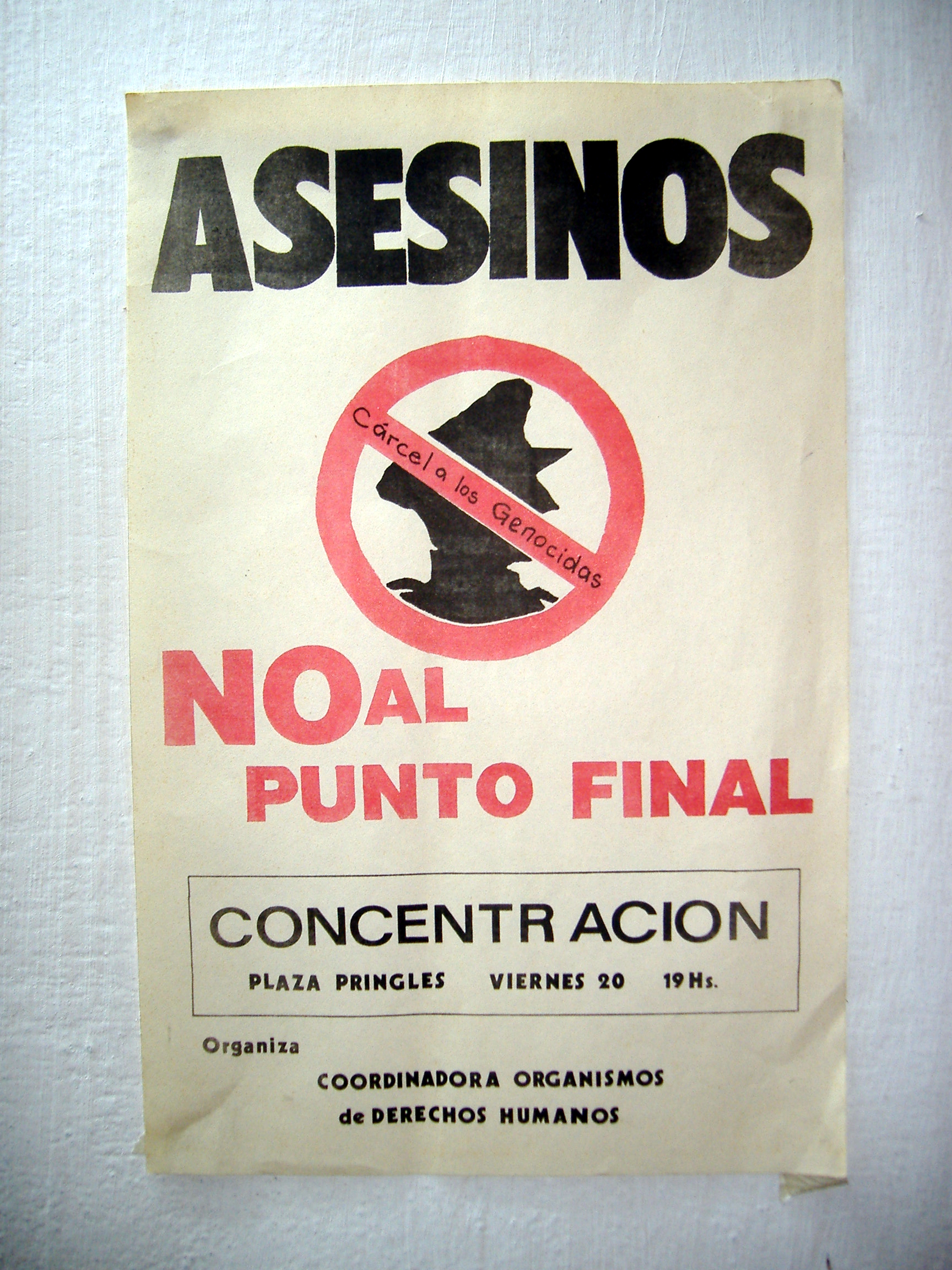 An announcement of a demonstration against the Ley de Punto Final (Full Stop Law), passed in Argentina after the last military dictatorship in order to stop the multiple crime investigations against military, police and others. The poster is located in a memorial site, formerly an illegal detention center, in Rosario. This picture was taken by Pablo D. Flores on 20 March 2006.